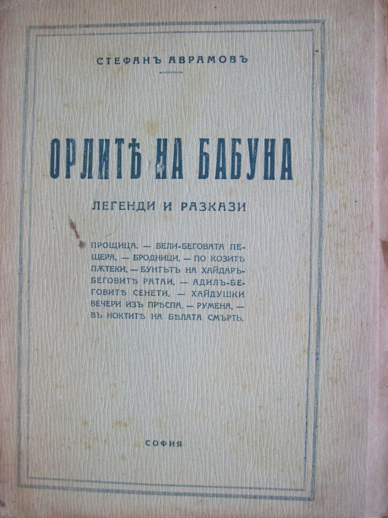 book cover of Orlite na Babuna (Eagles of Babuna mountain)